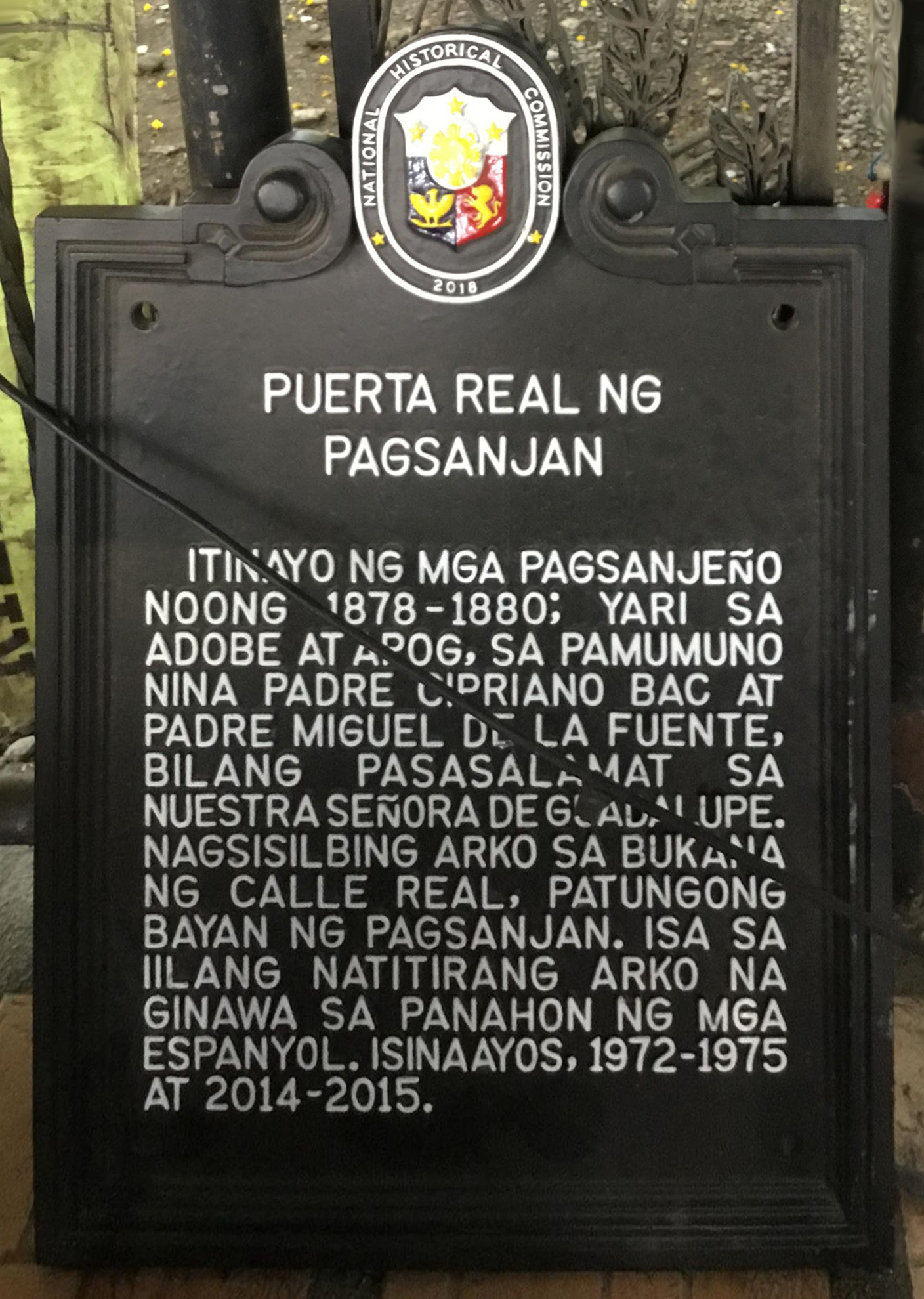 Puerta Real ng (Royal Gate of) Pagsanjan NHCP Historical Marker